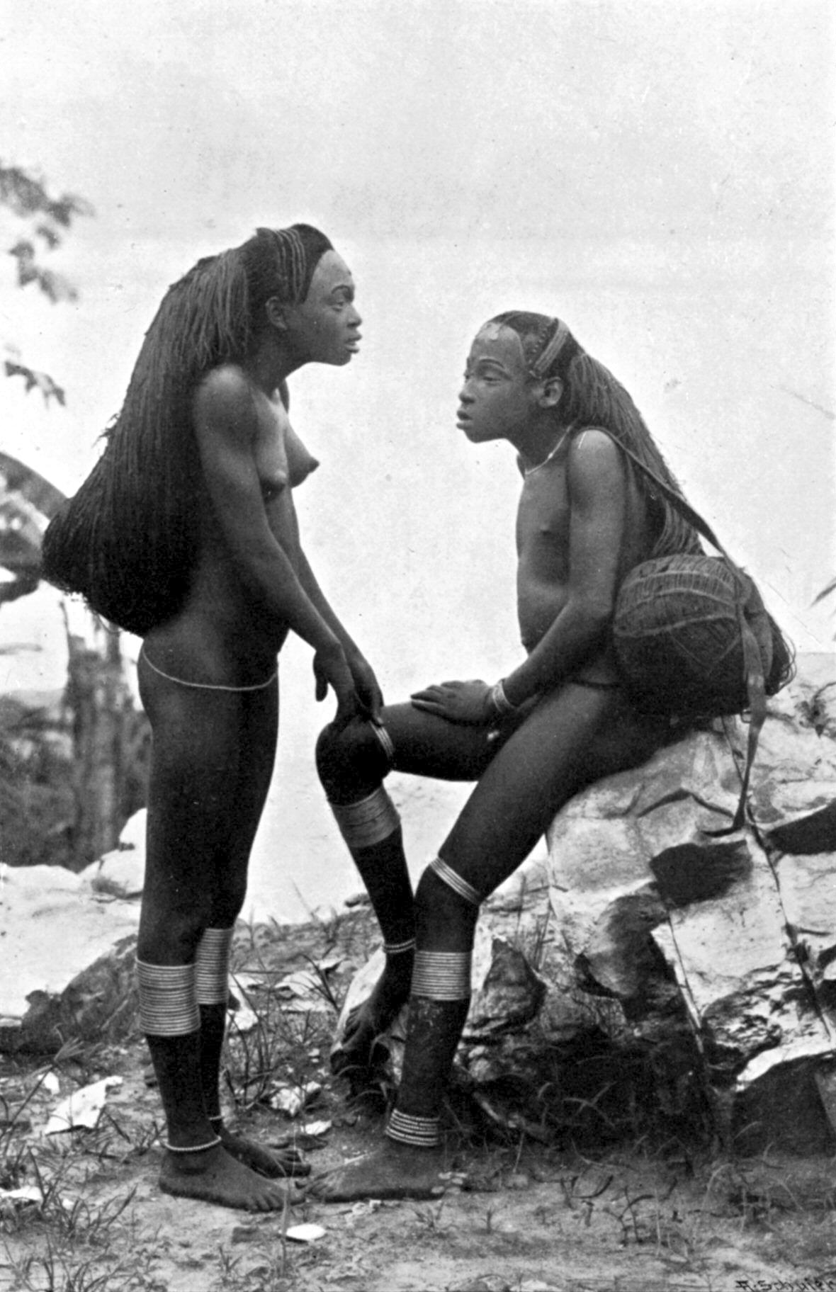 Young Sango (Ngbandi) girls at Banzyville